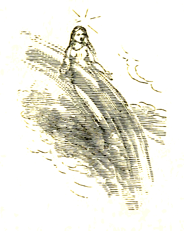 A fairy girl (by illustrator Cora M. Norman), seen at the end of "The Cloud Fairies" in Ernest Vincent Wright's The Wonderful Fairies of the Sun. (Number refers to the DjVu location.)